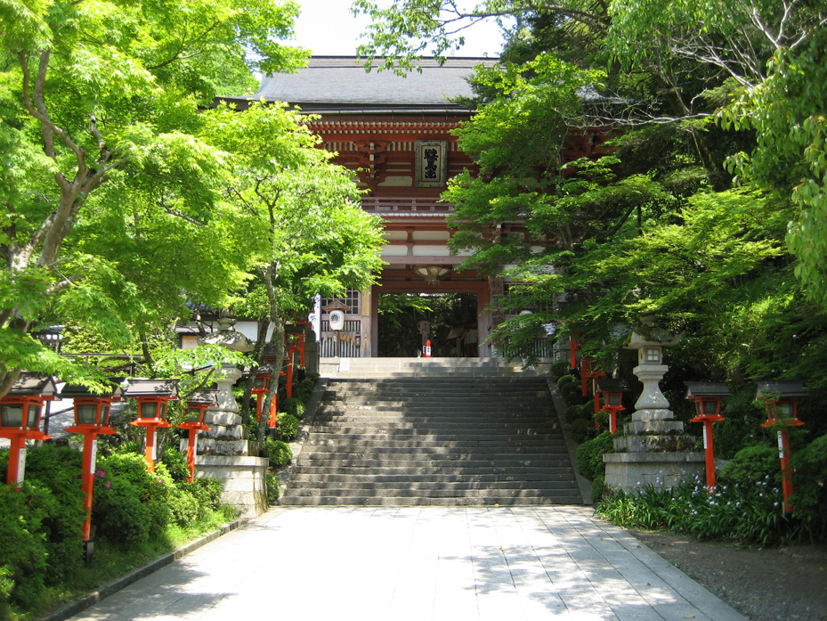 Main Gate into Kurama Temple on Kuramayama Mountain near Kyoto Japan